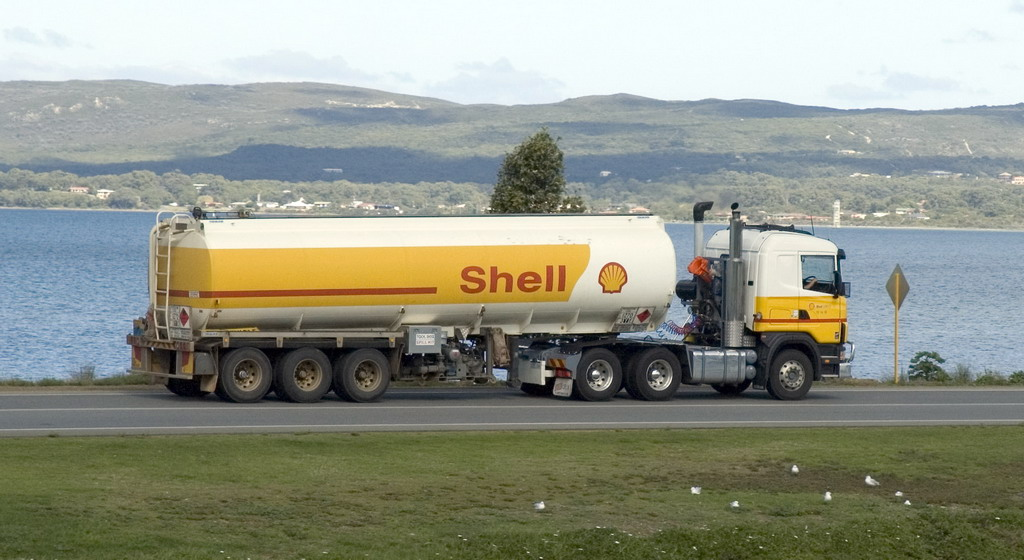 Shell tanker truck.